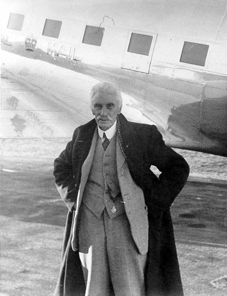 Australian politician Edmund Dwyer-Gray